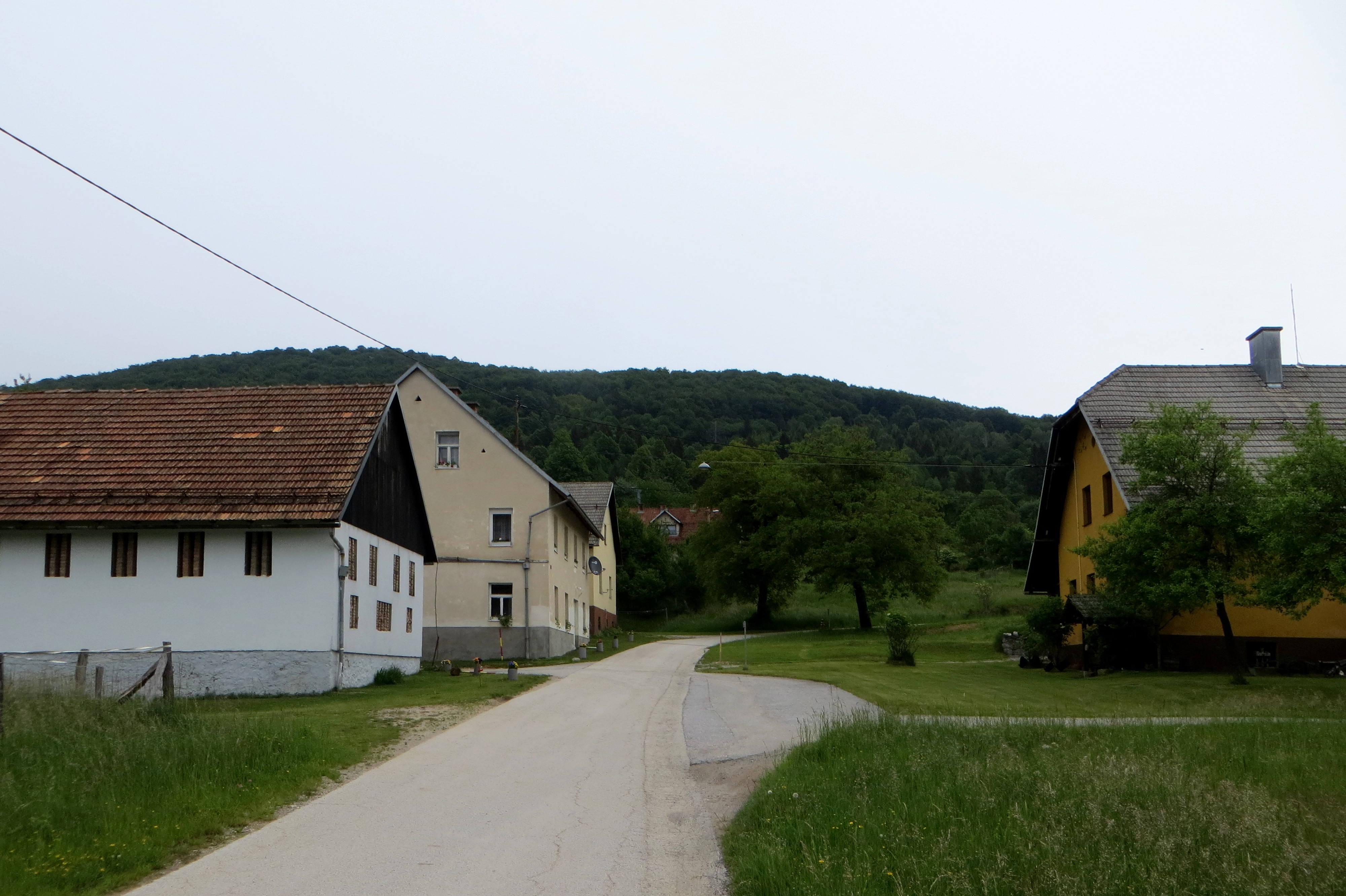 Onek, Municipality of Kočevje, Slovenia